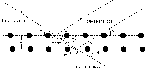 Difracção de Raios-X a partir de planos atómicos.